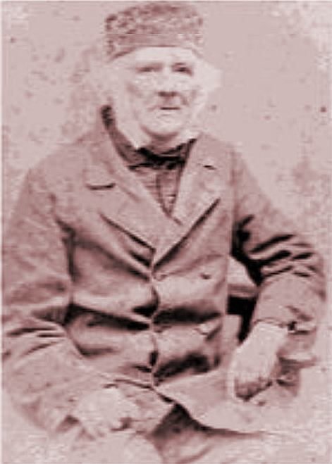 Franz Leopold Heinrich Ramdohr (1793-1866)